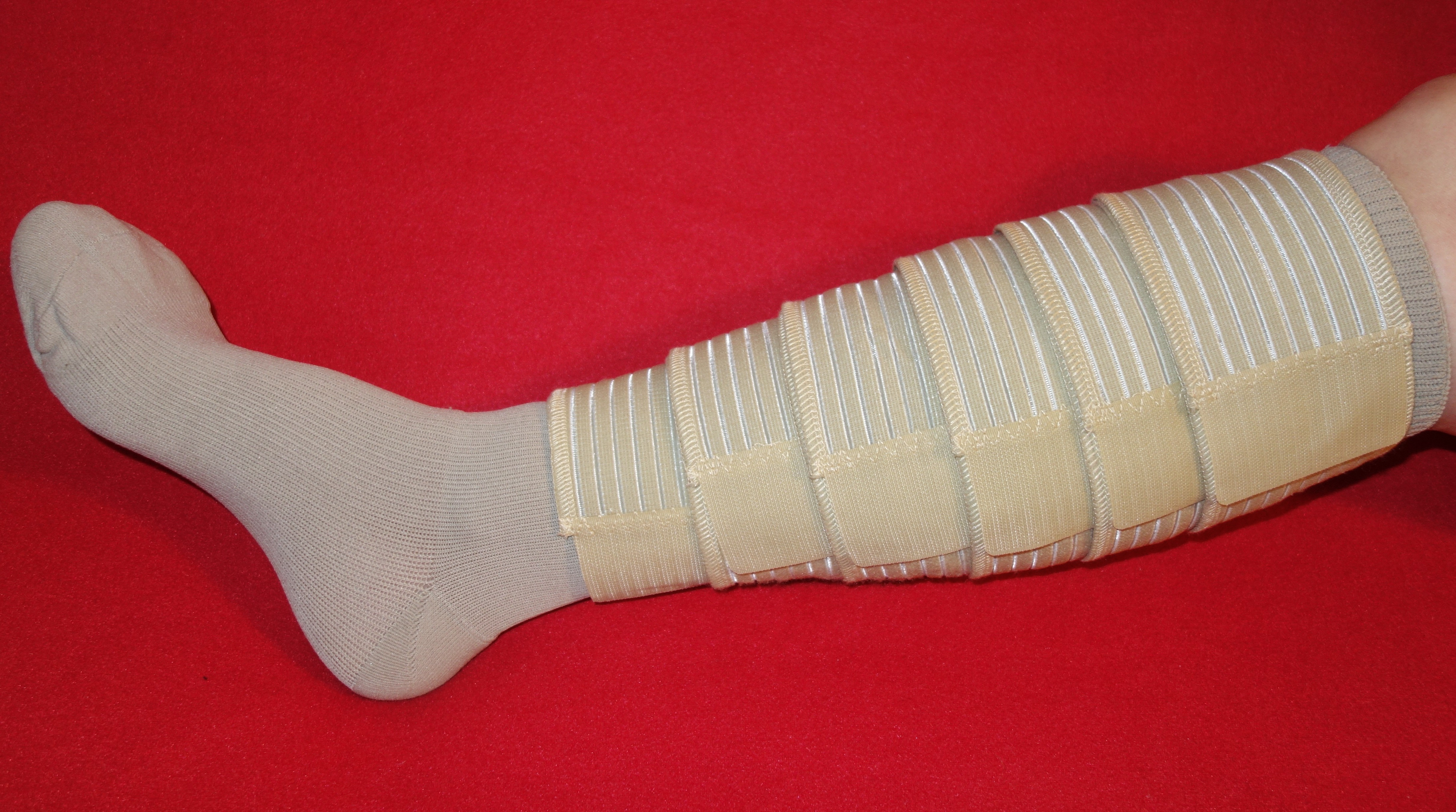 adaptive Bandage for compression therapy of venous leg ulcers